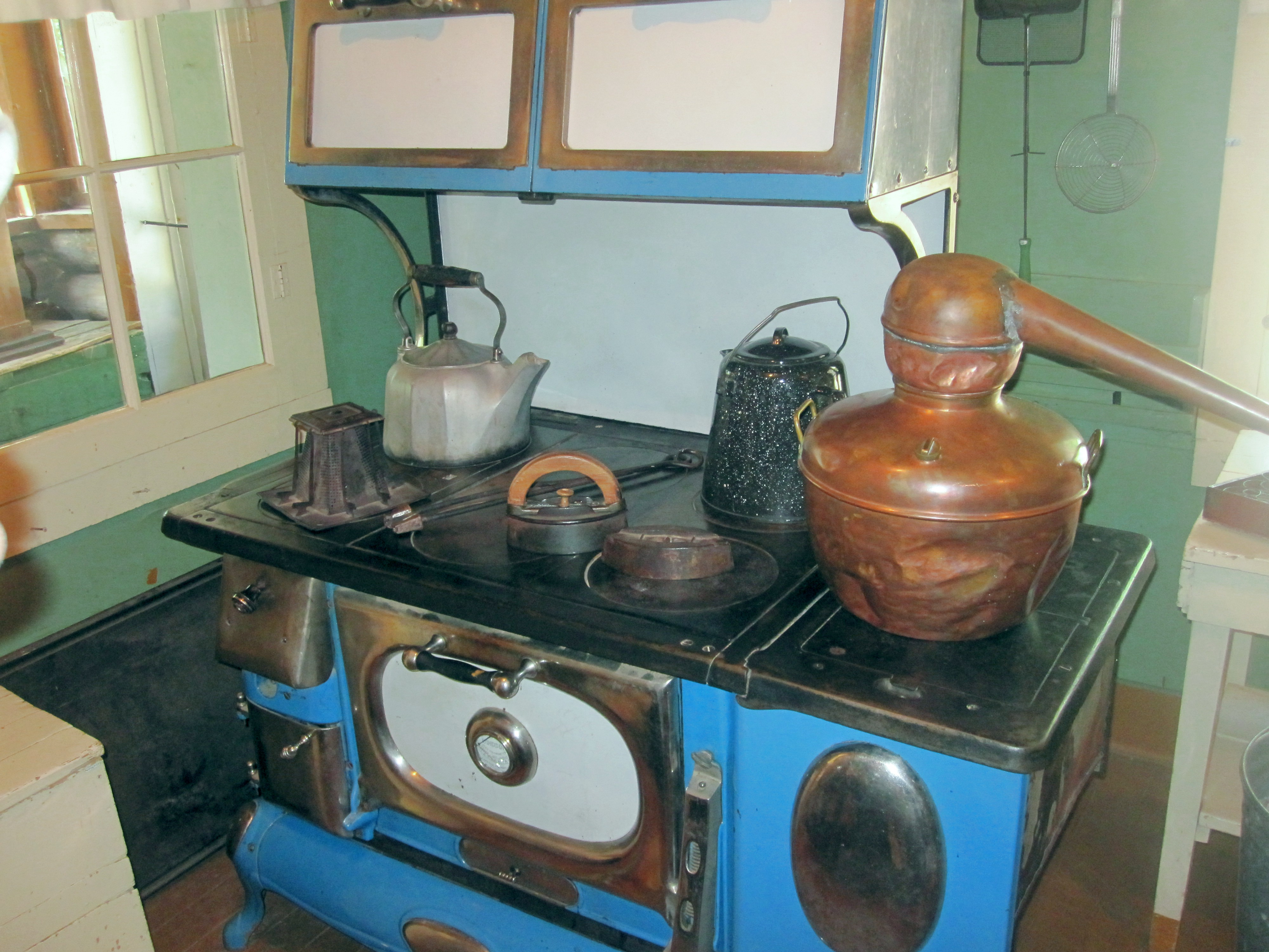 I took photo with Canon camera in RMNP, CO.